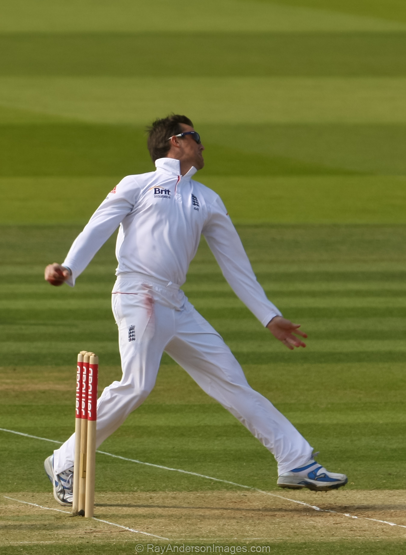 Swann bowling against Sri Lanka at Lord's in the second Test. Scorecard.